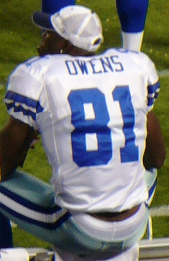 Dallas Cowboys wide receiver Terrell Owens at the 2008 preseason game against the Minnesota Vikings.